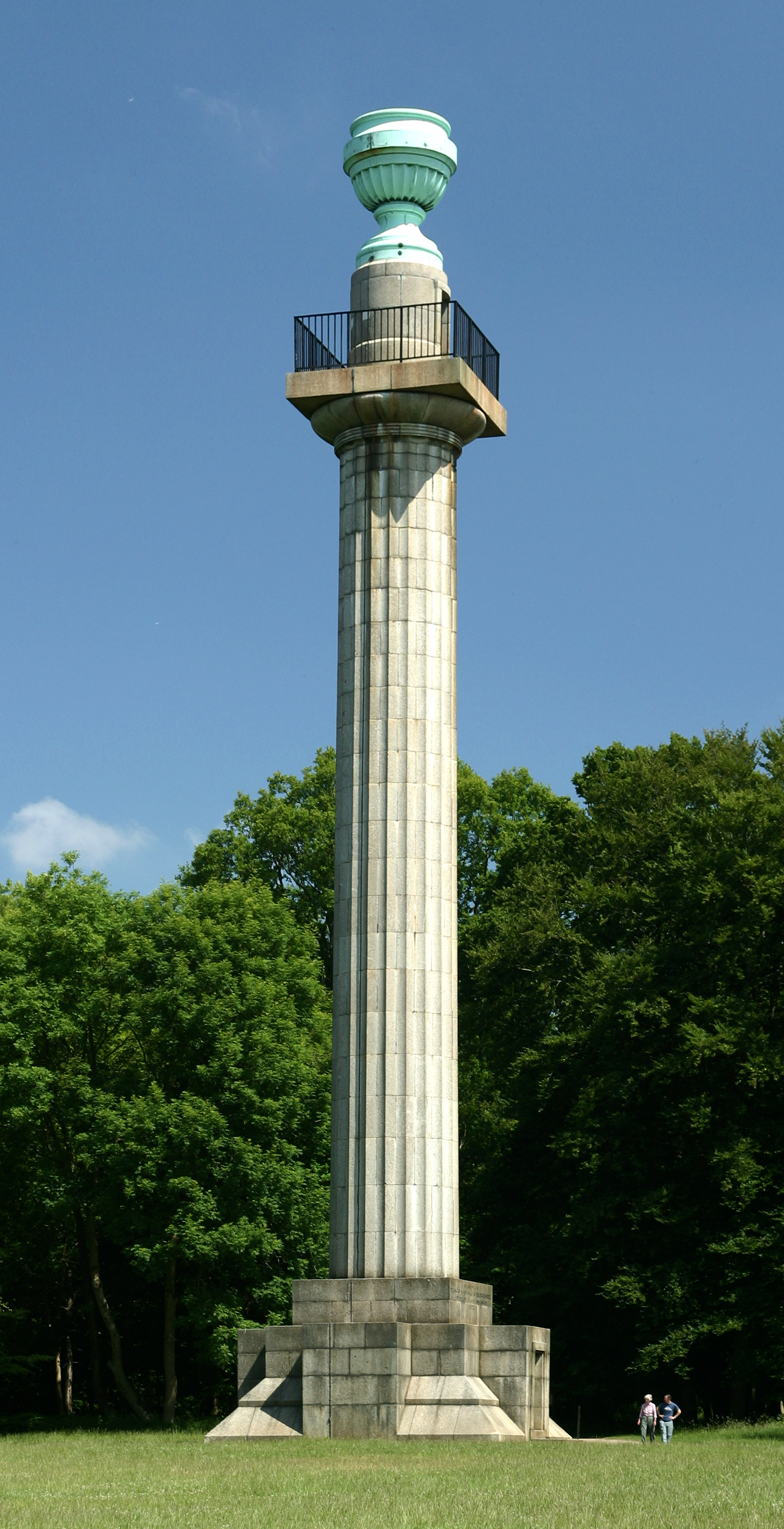 Bridgewater Monument on the Ashridge Estate, England. Photographed for Wikipedia by Pointillist and contributed under the cc-by-sa 3.0 license